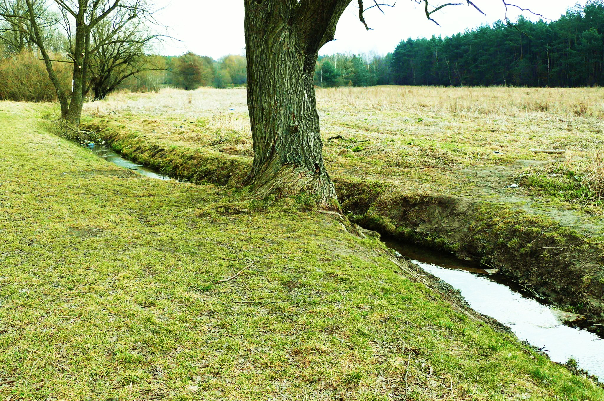 Rozany Potok river in Poznan, Campus UAM.